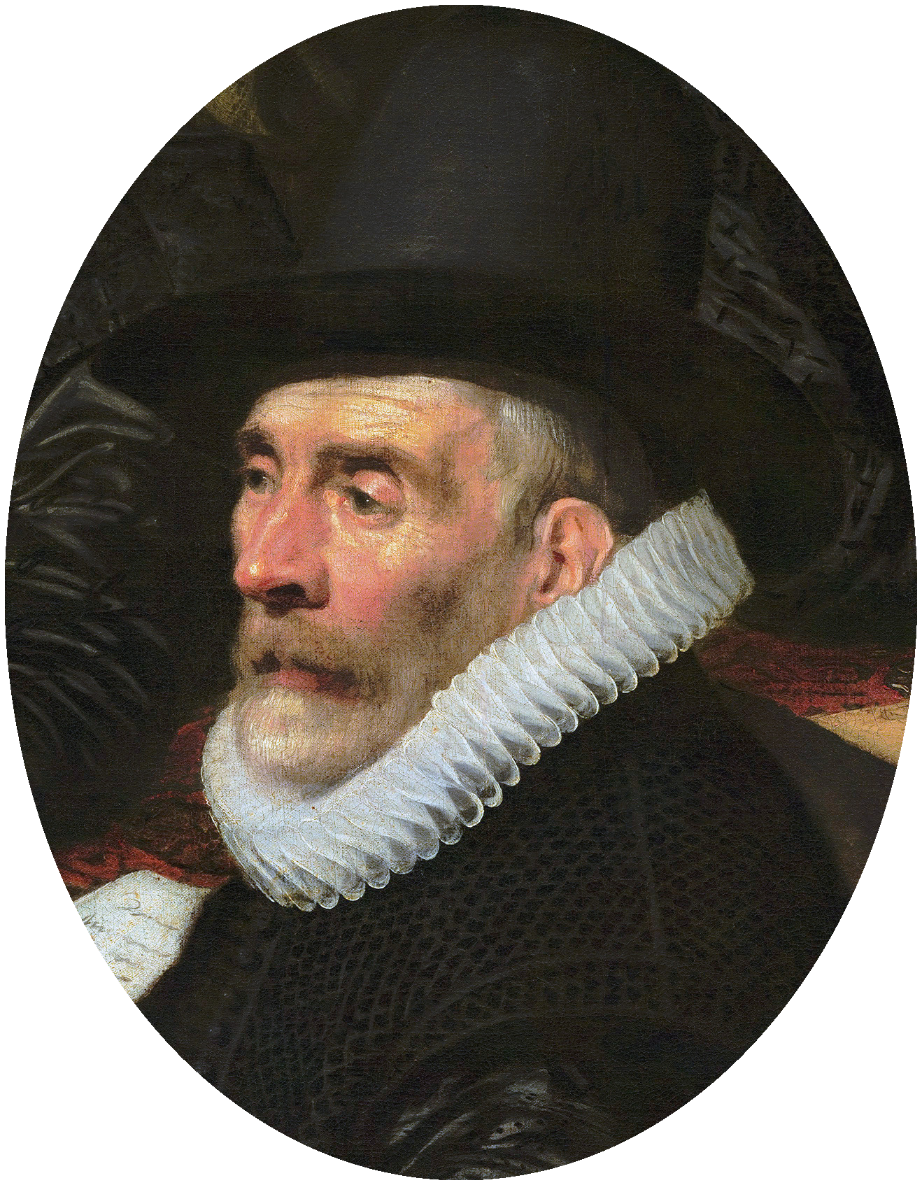 Jacob van Wouw (1545-1620), mayor of The Hague